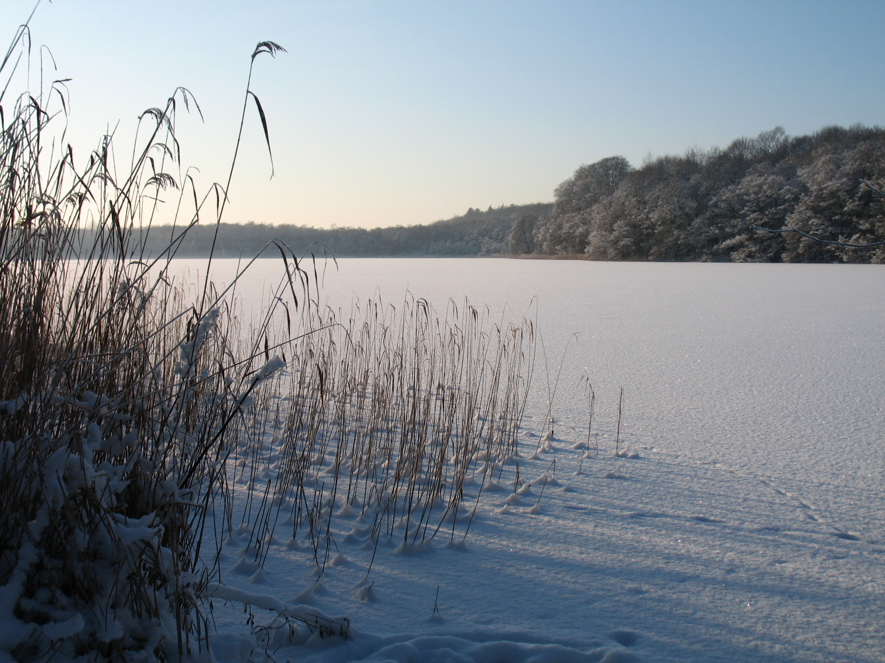 Lake Vallum, Djursland, Denmark in December 2010, seen from the East.